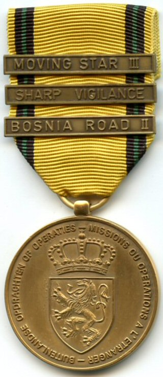 Medal for Foreign Operations or Missons (Belgium)